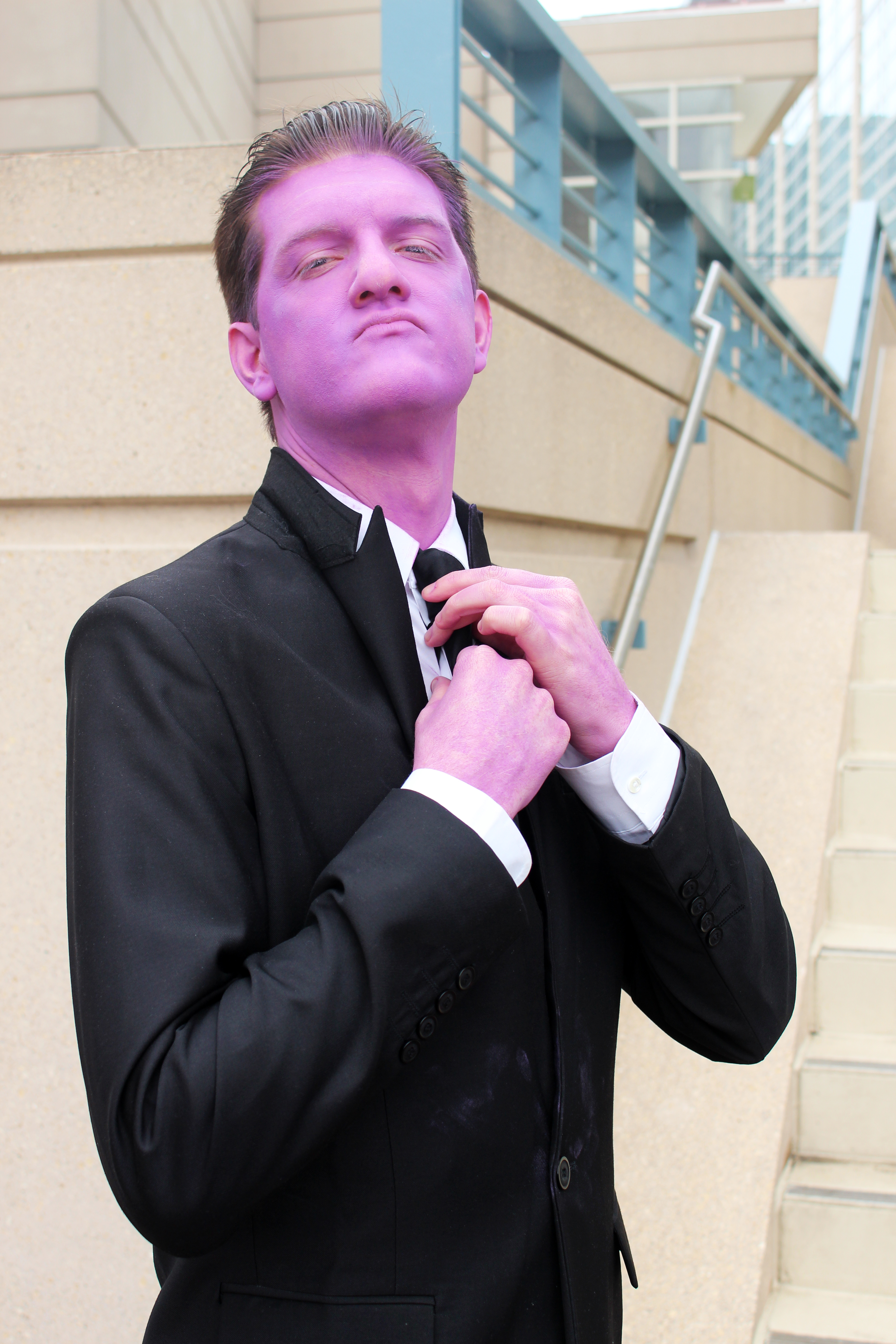 Cosplay at the 2013 Chicago Comic & Entertainment Expo (C2E2).